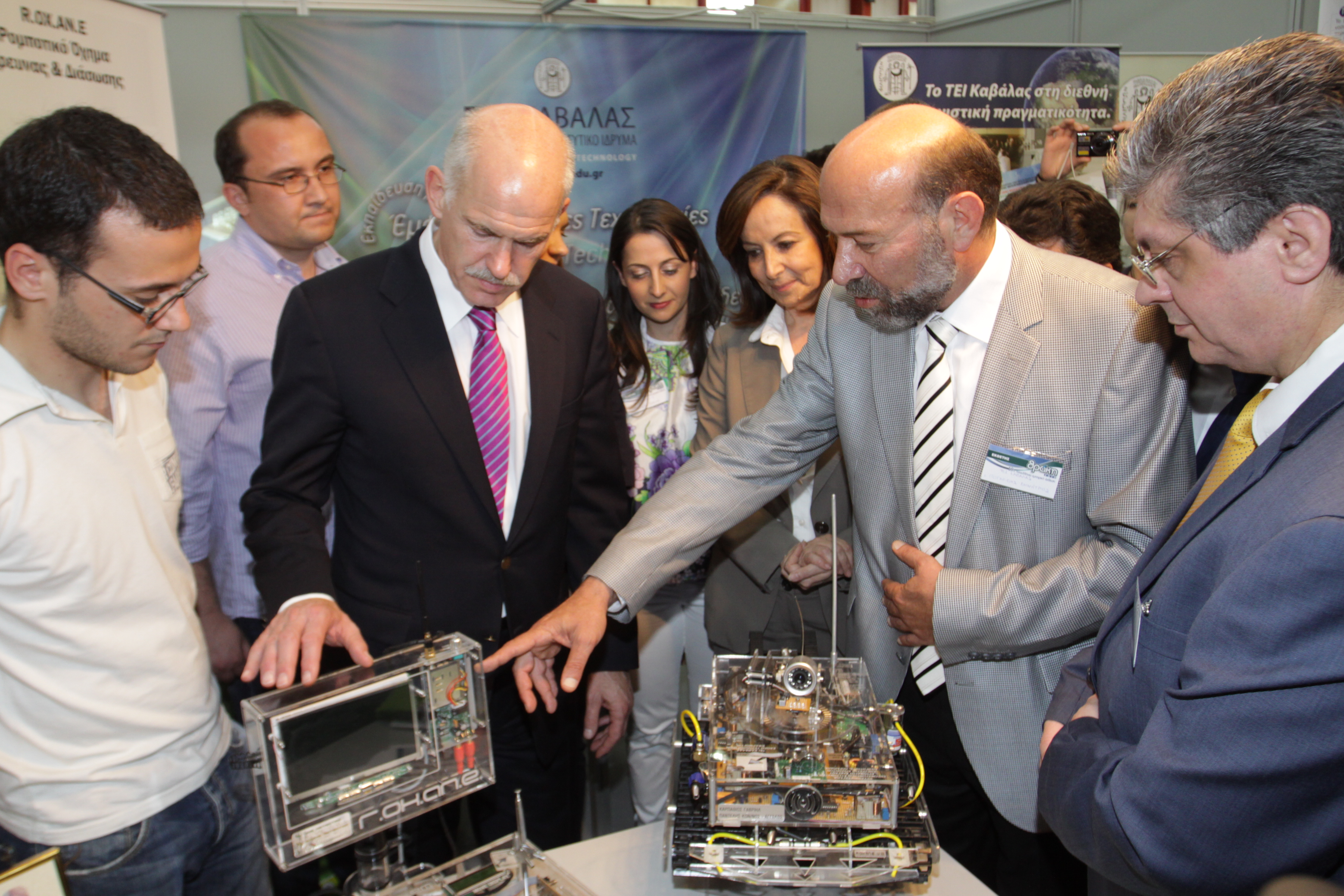 The Prime Minister (Papandreou) inspects the R.OX.AN.E. (Robotic vehicle that locates survivors). Snapshot from the stand of the TEI of Kavala in the International Exhibition of Thrace (2010).